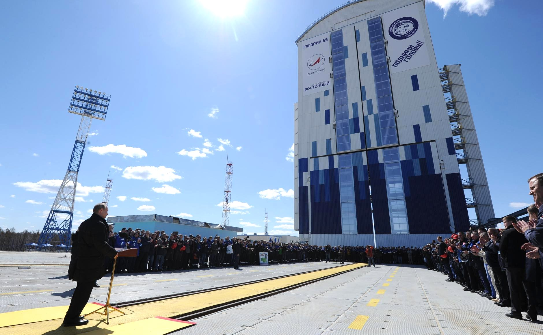 Launch of the Soyuz-2.1a from Vostochny 2016-04-28. A speech by Vladimir Putin, President of the Russian Federation. There is also Yuri Gagarin's face and slogan "Raise your head!" to commemorate the 55th anniversary of Gagarin's flight visible on the photo.